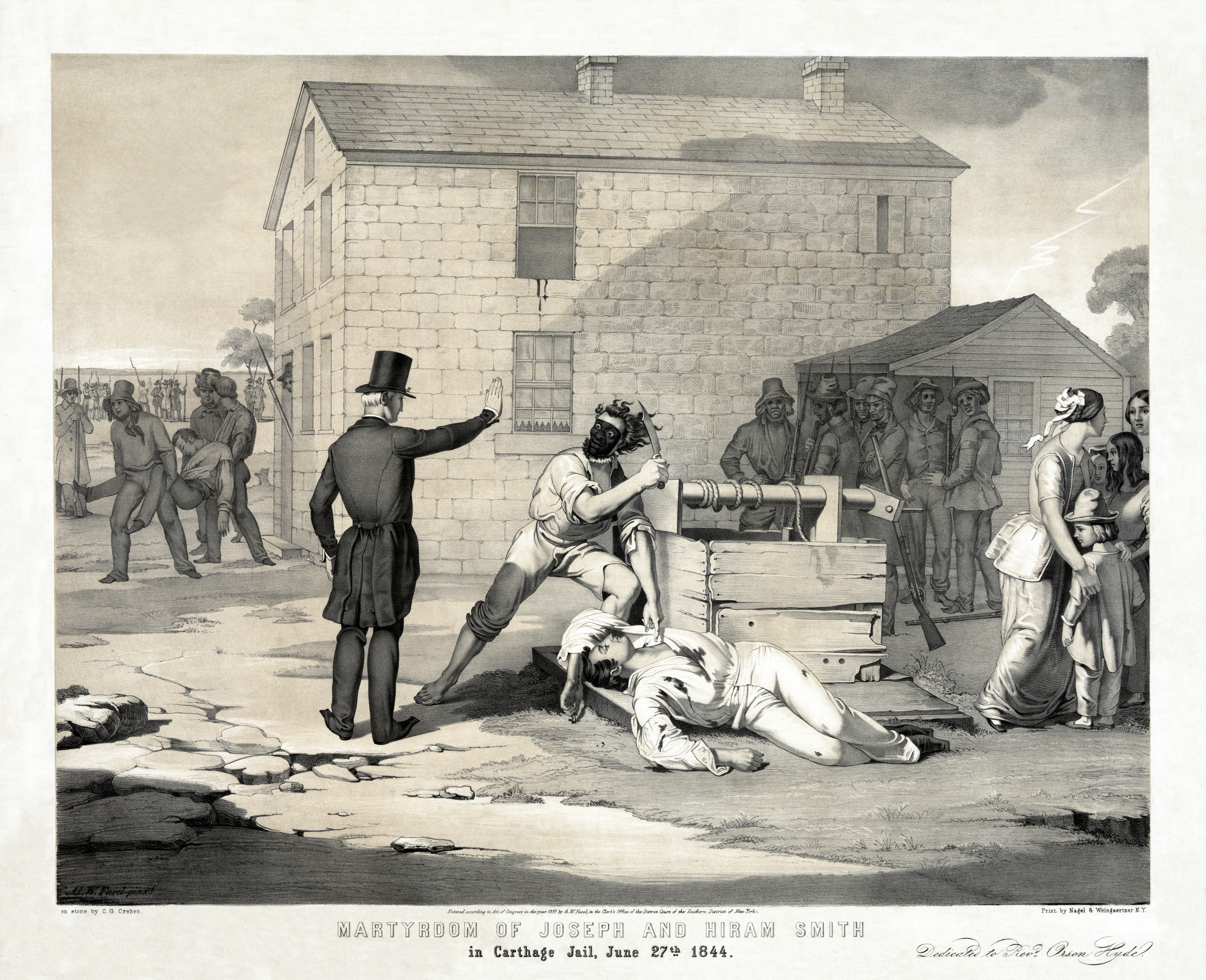 Martyrdom of Joseph and Hiram Smith in Carthage jail, June 27th, 1844 G.W. Fasel pinxit [e.g. painted it] ; on stone [e.g. turned into a lithograph] by C.G. Crehen ; print. by Nagel & Weingaertner, N.Y. Dedicated to the Reverend Orson Hyde Note: This is a slightly unusual lithograph. Basically, it's a black and white lithograph with a second yellow-brown layer on top of it, giving it a bit of an extra tonal range, because the yellow can be a lot lighter than the black. I think these should be about the right colours, though this type of lithograph is unusual enough that I've only come across one or two before. To see the two layers, look at the upper right, where you can see a slight mismatch between the layers that makes them very clear.